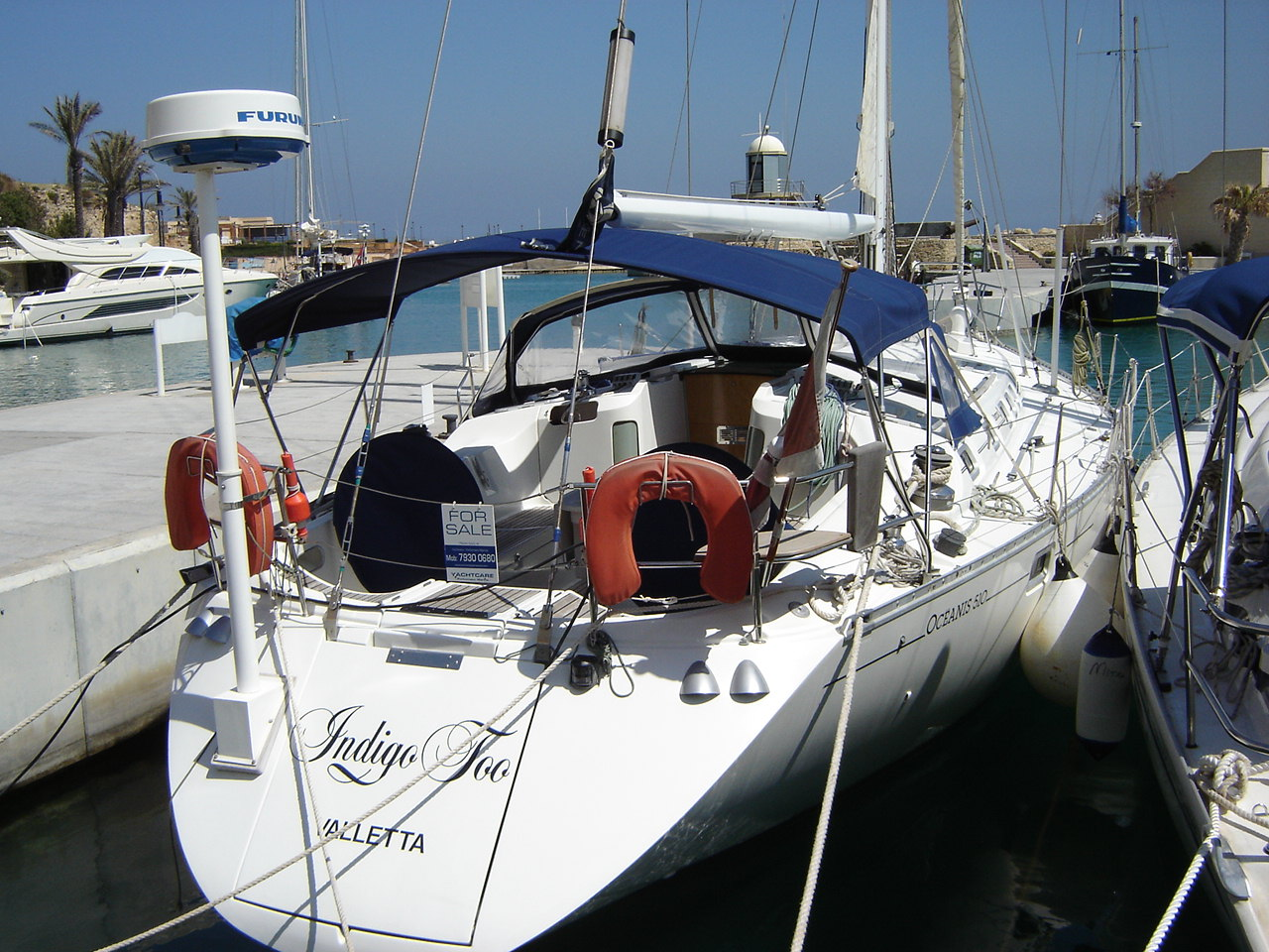 This yacht would appear to be a Bénéteau Oceanis 510.